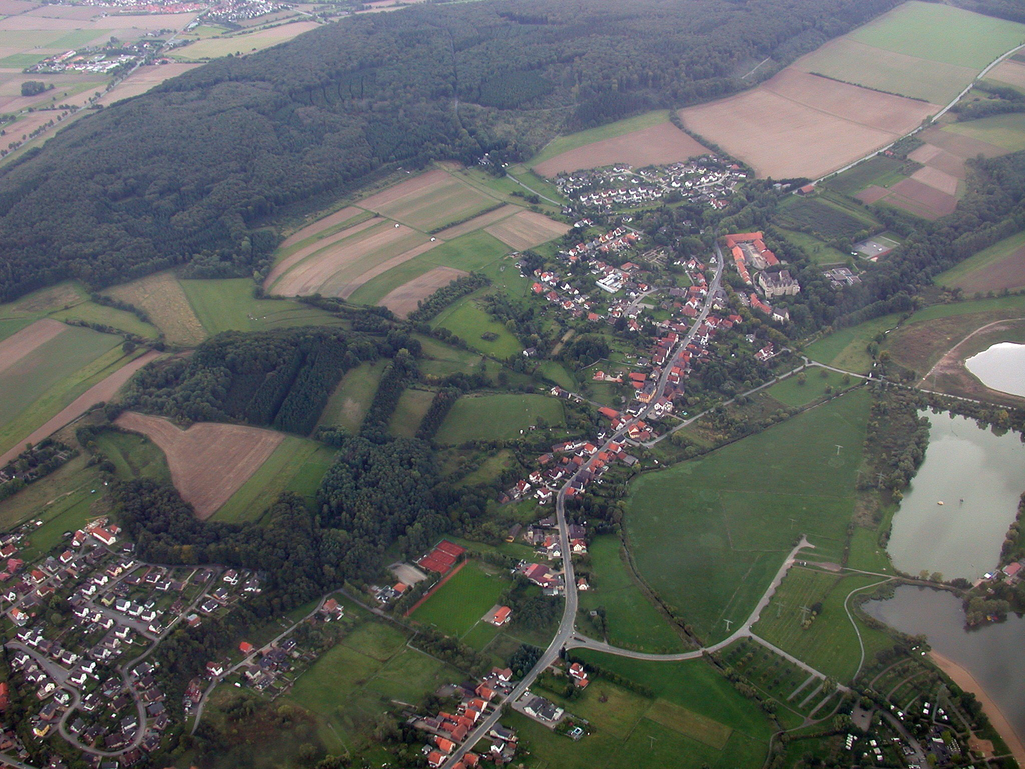 Aerial view of Varenholz